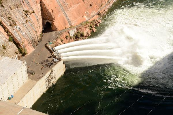 High Flow Release from the Glen Canyon Dam in December 2012, part of environmental restoration work in the Grand Canyon.